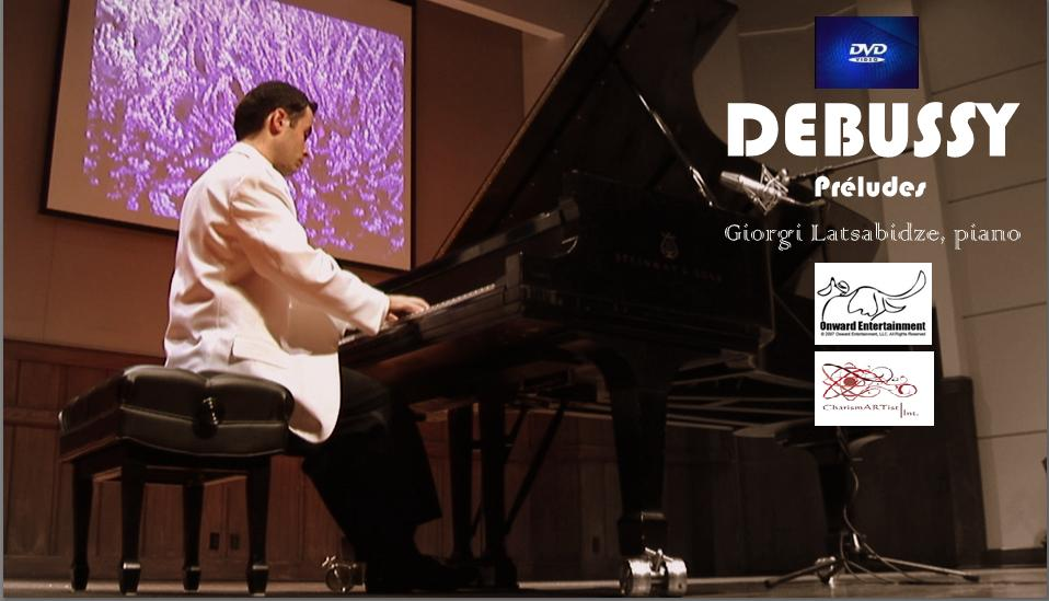 Giorgi Latsabidze, piano. DVD/CD Onward Entertainment, LLC & CharismARTist Int., LLC 2010